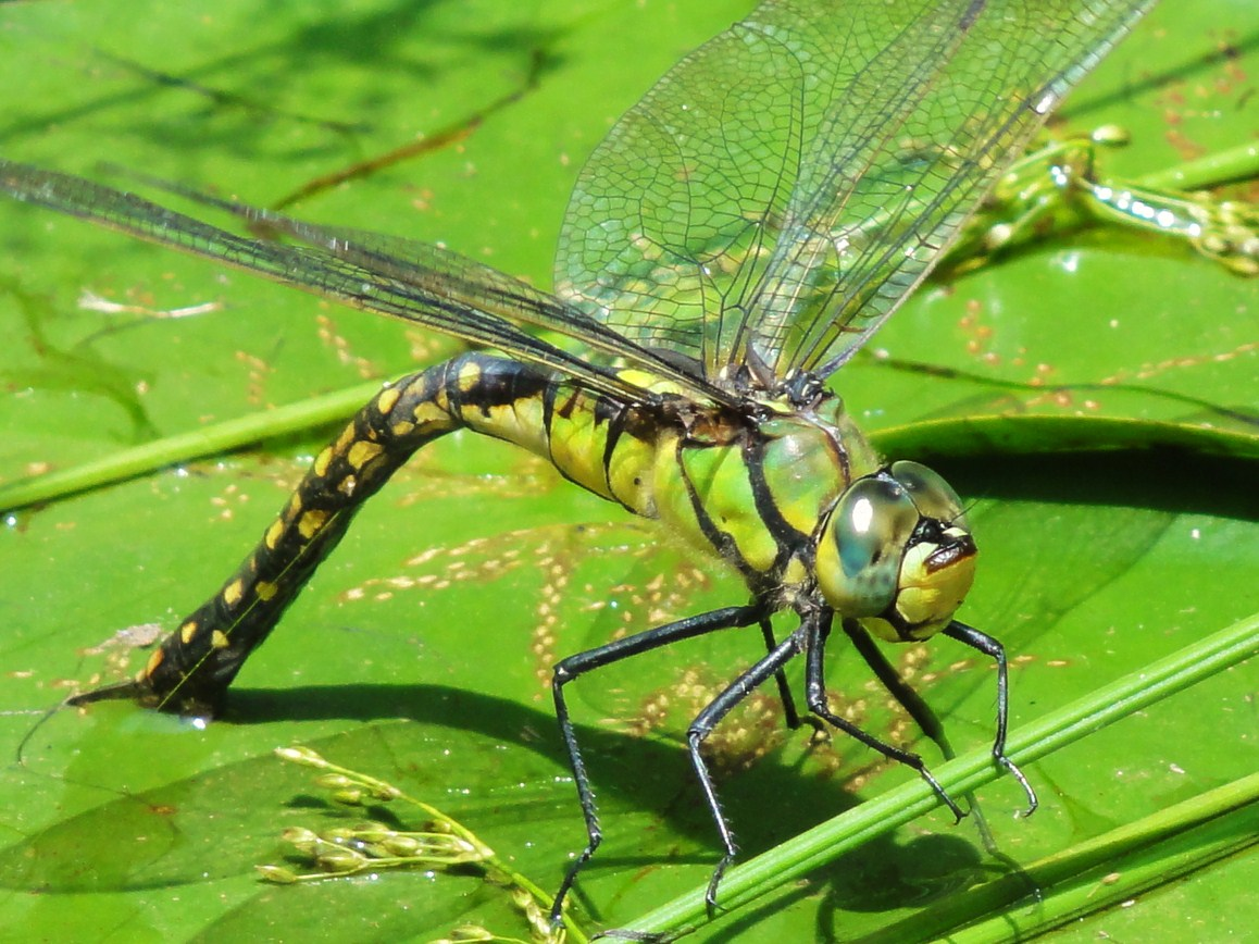 Lesser emperor with black stripes. - female, Japan.